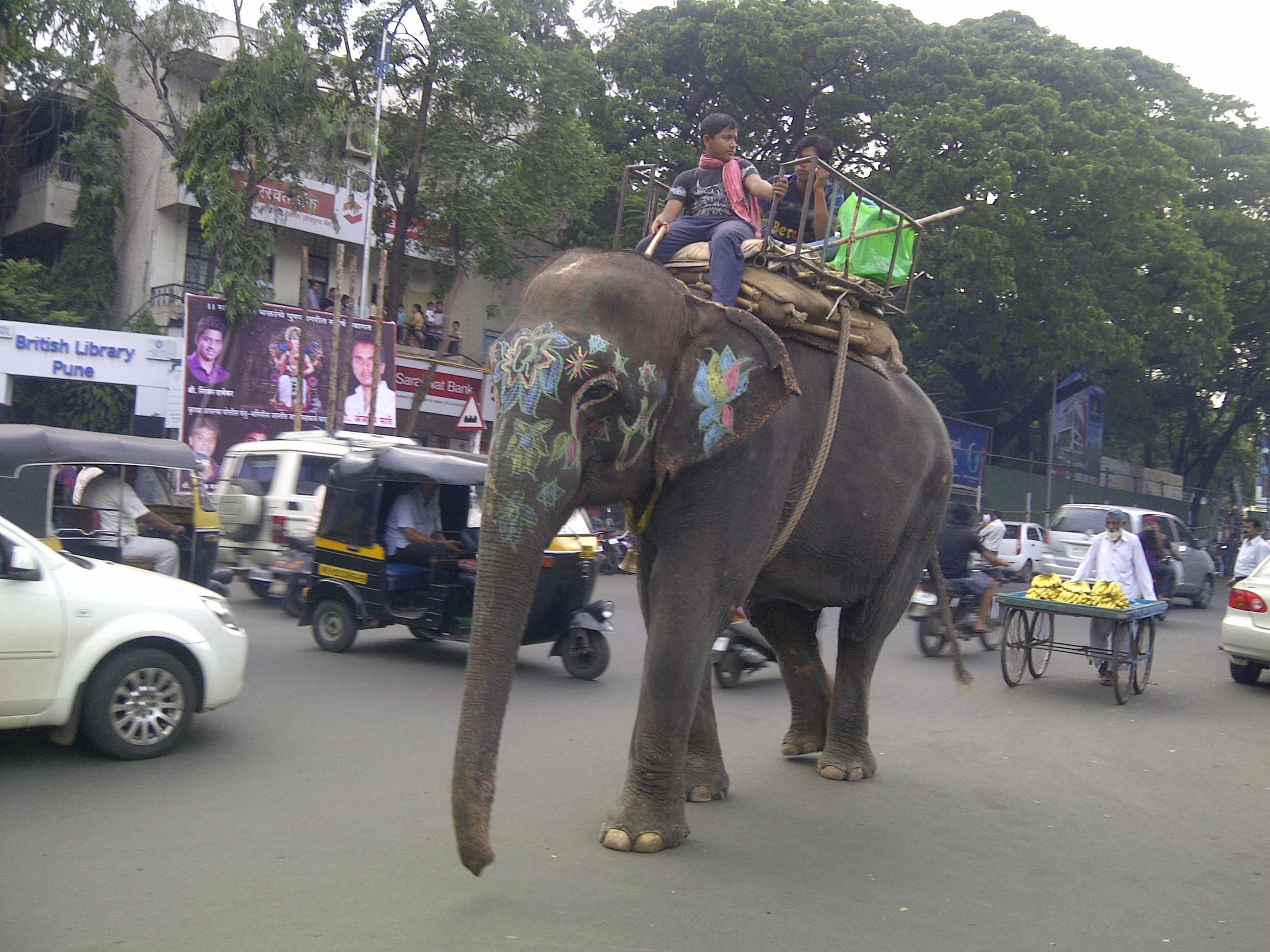 Elephant Ride- FC Road